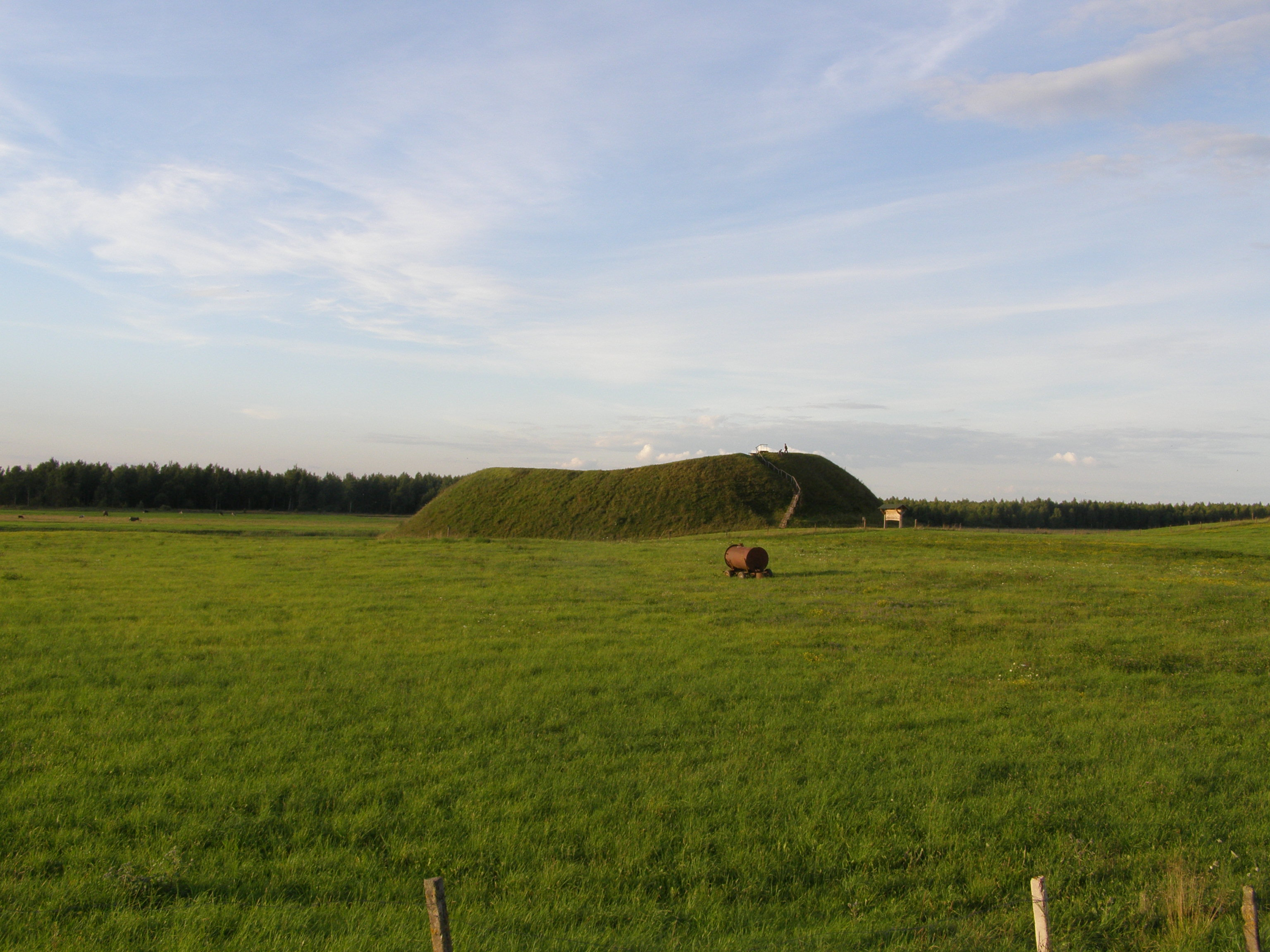 Varnupiai hillfort, Marijampolė district, Lithuania